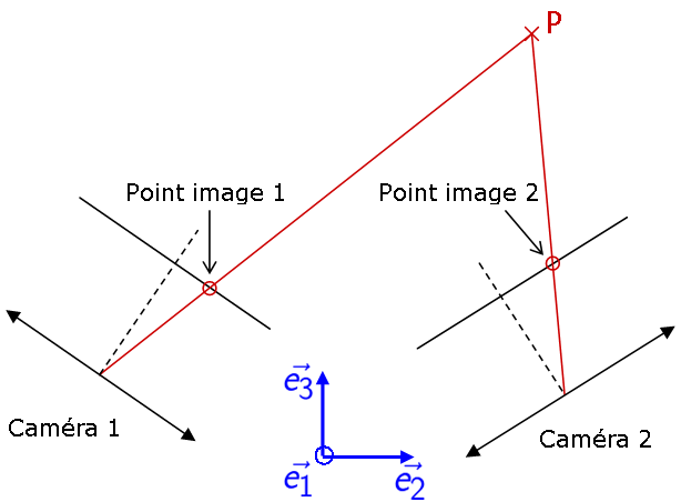 Illustrates the triangulation principle used for the recovery of depth information from two images.